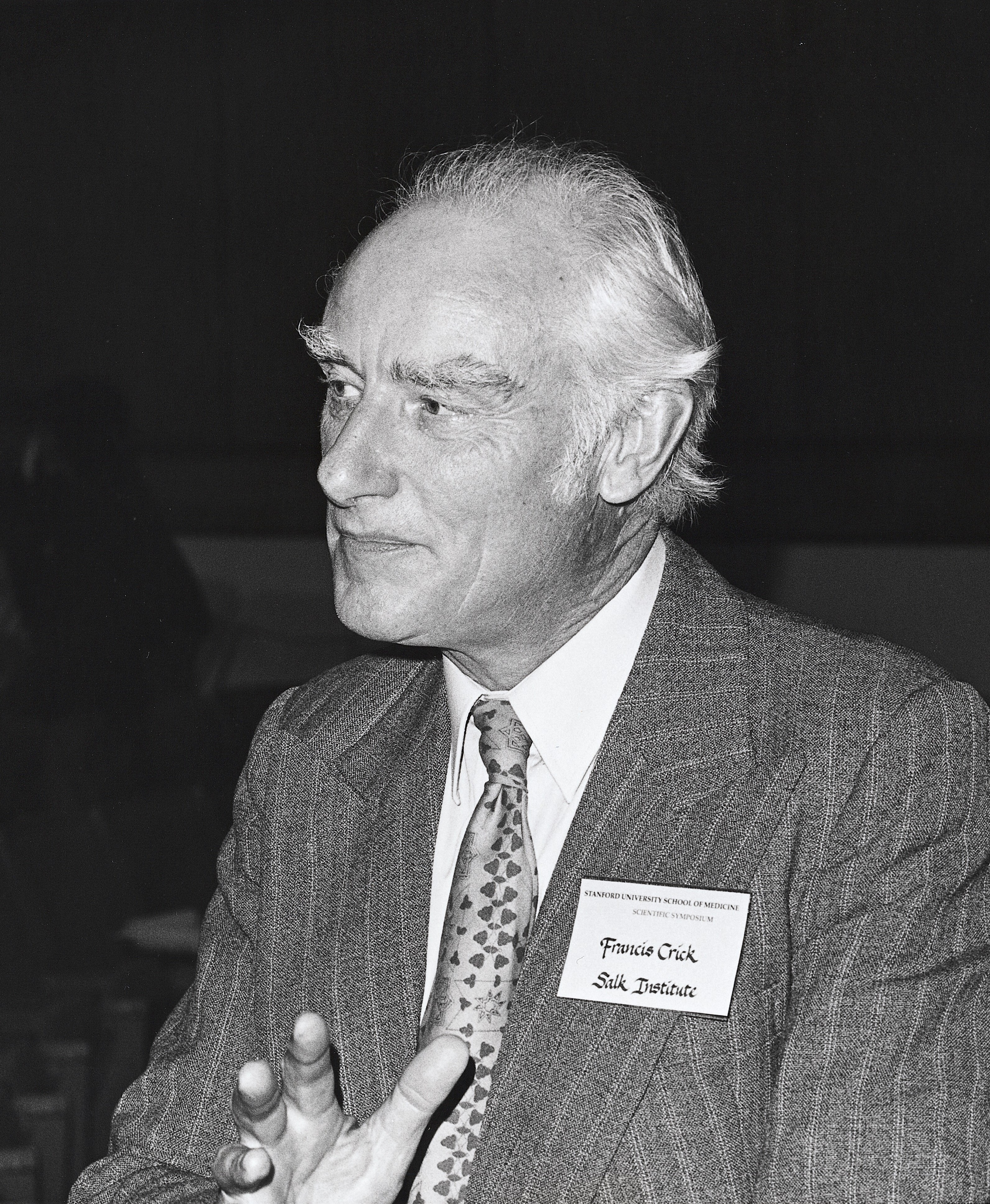 Scientific Symposium, Stanford University School of Medicine: Francis Crick talking to someone out of shot